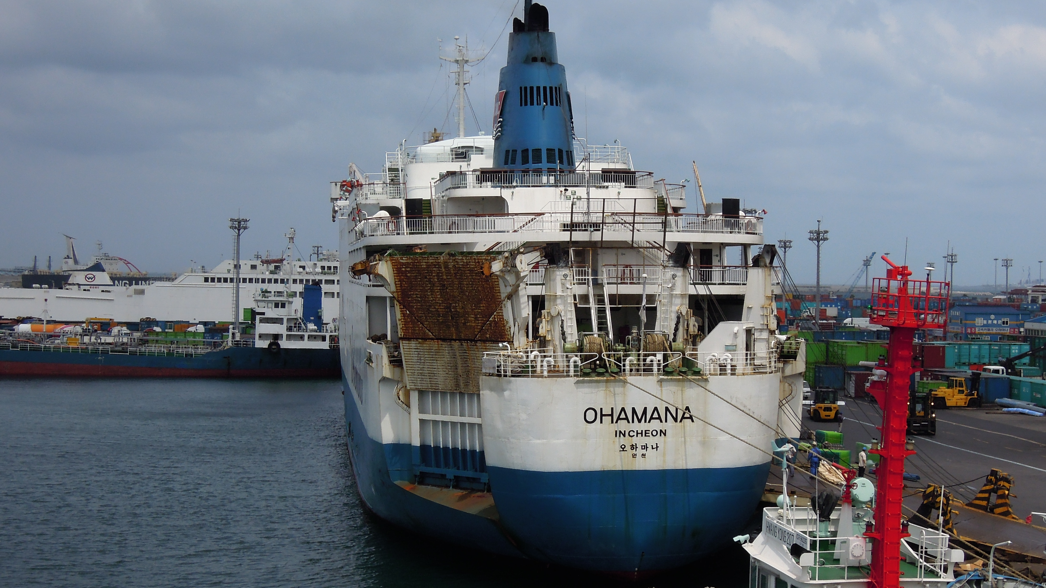 RoRo/passenger ship Ohamana of Chonghaejin Marine Company